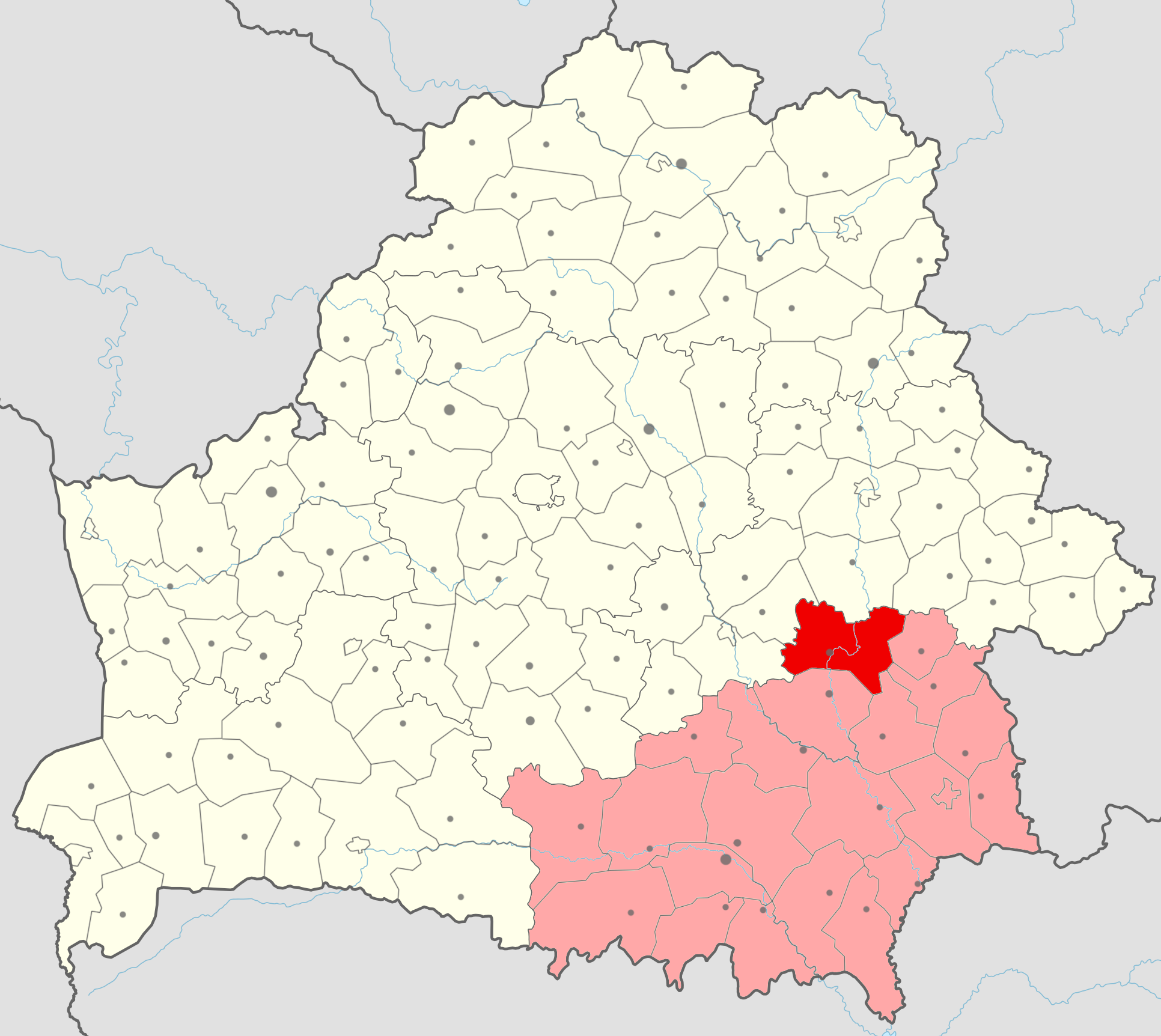 Location of Rahačoŭski rajon (red) in Homieĺskaja voblasć (light red) in Belarus.